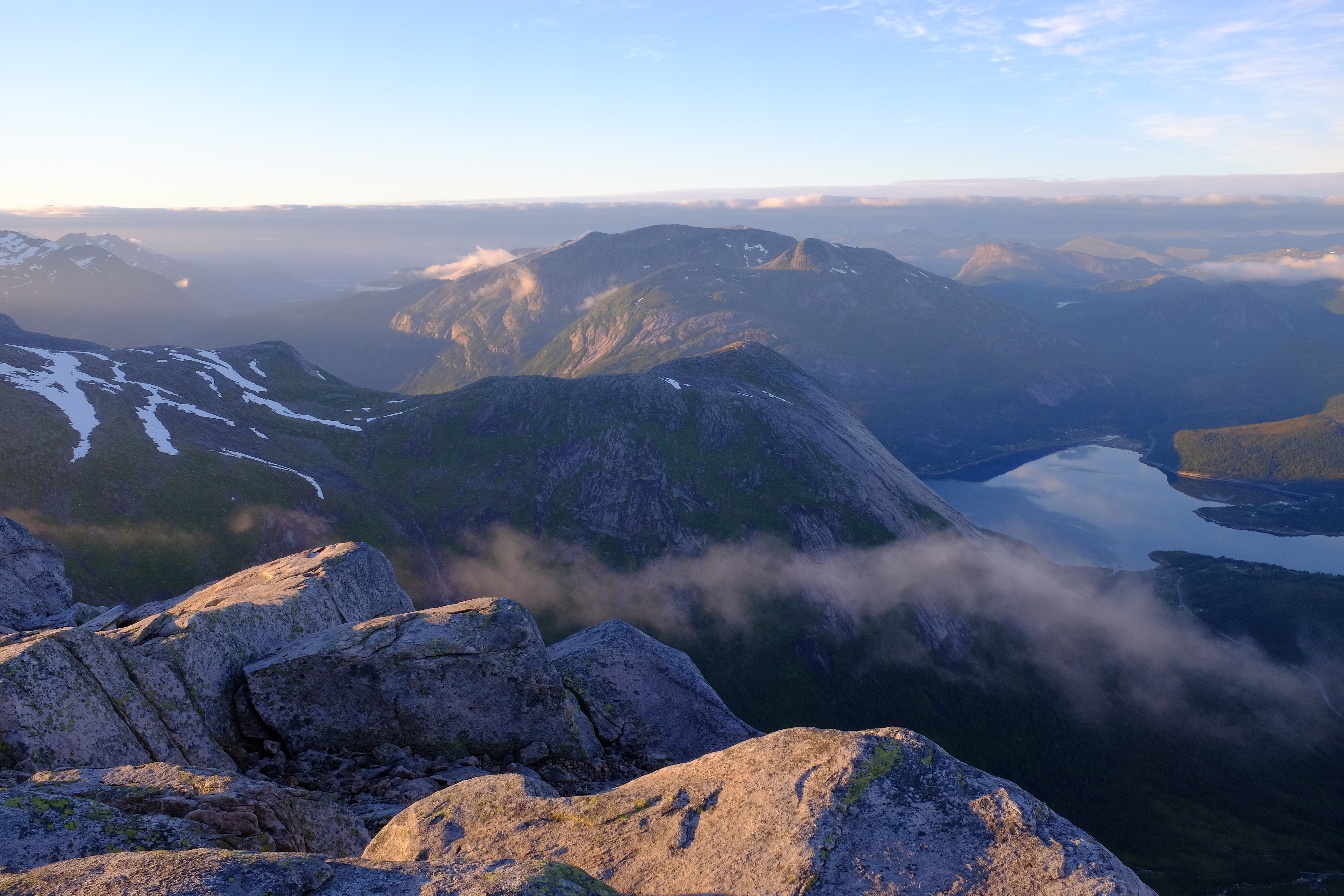 Mørsvikbotn village seen from Blåfjell peak, Sørfold, Norldand, Norway.